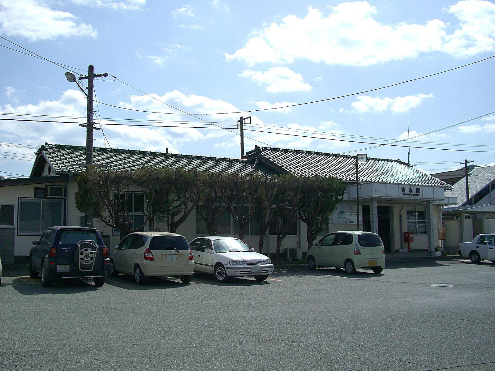 West Japan Railway Sanyo Main Line Yoshinaga Station Building